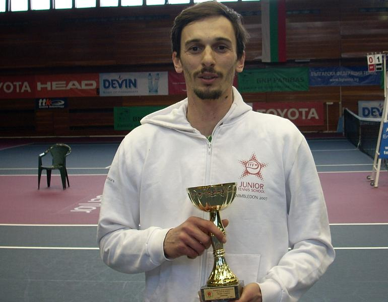 Ivo Bratanov as a winner of the 2009 Bulgarian national indoor men tennis championship.